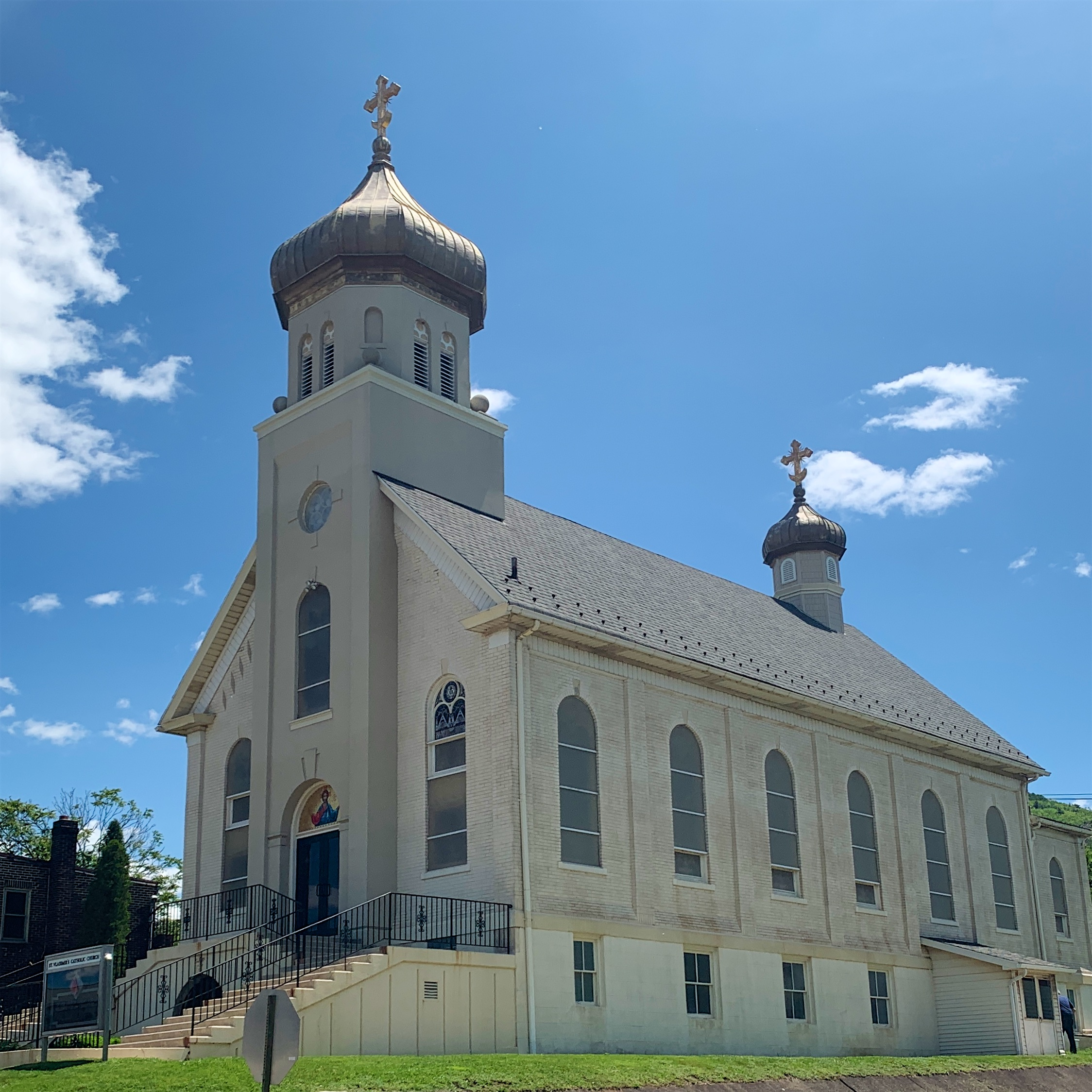 St. Vladimir Church in Palmerton, Pennsylvania. Contributing property of the Palmerton Historic District.